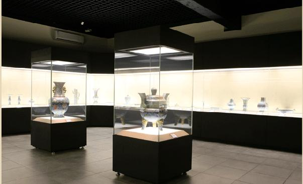 Porcelain Gallery